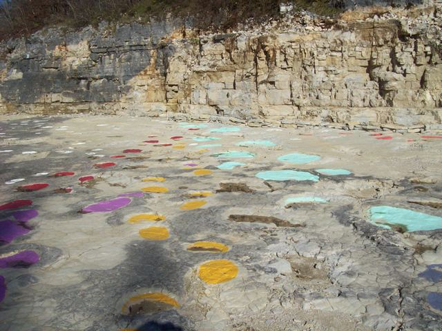 Dinosaur trails near the French town of Loulle.